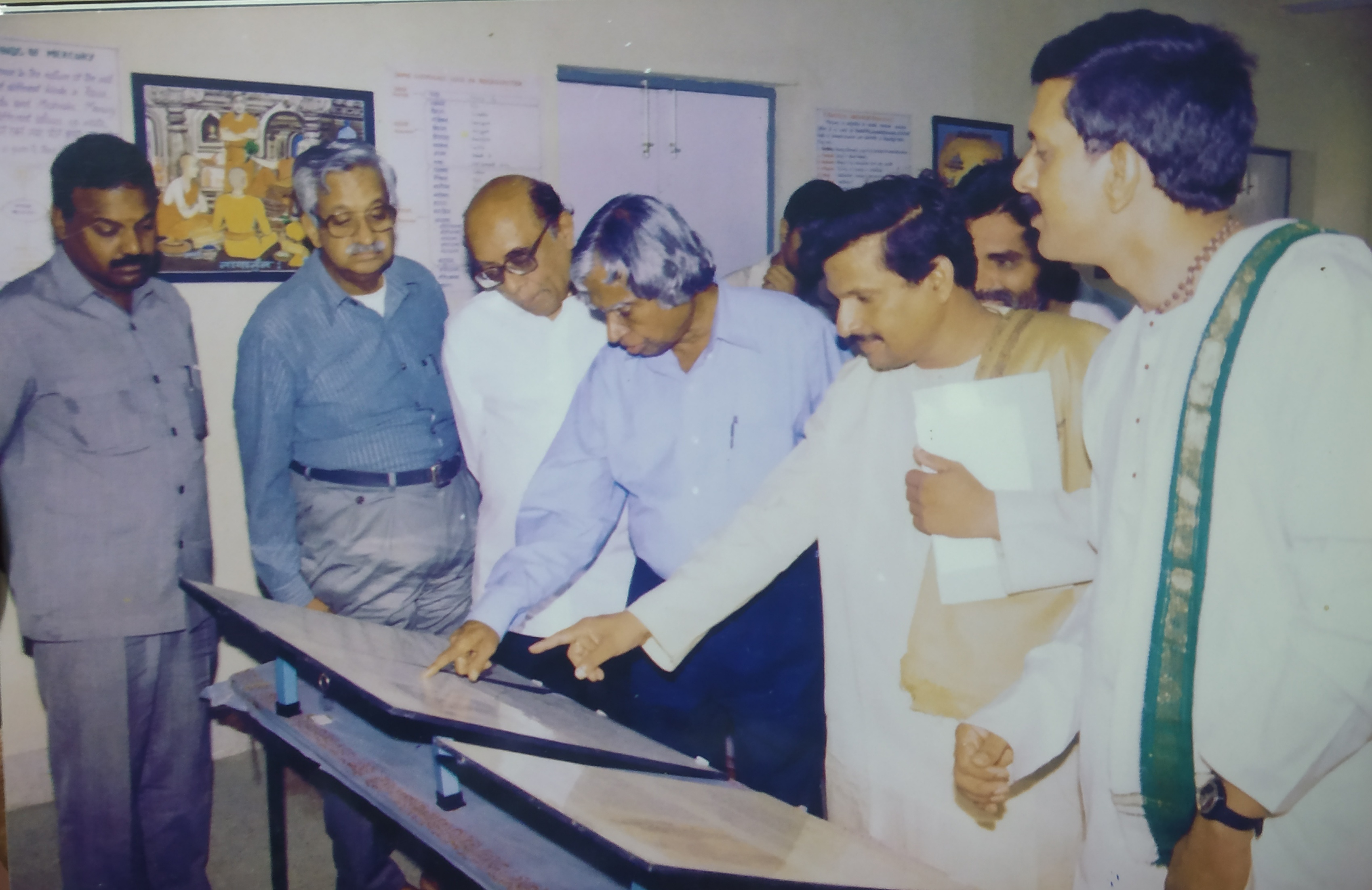 Abdul khalam visiting satyanarayana's paintings